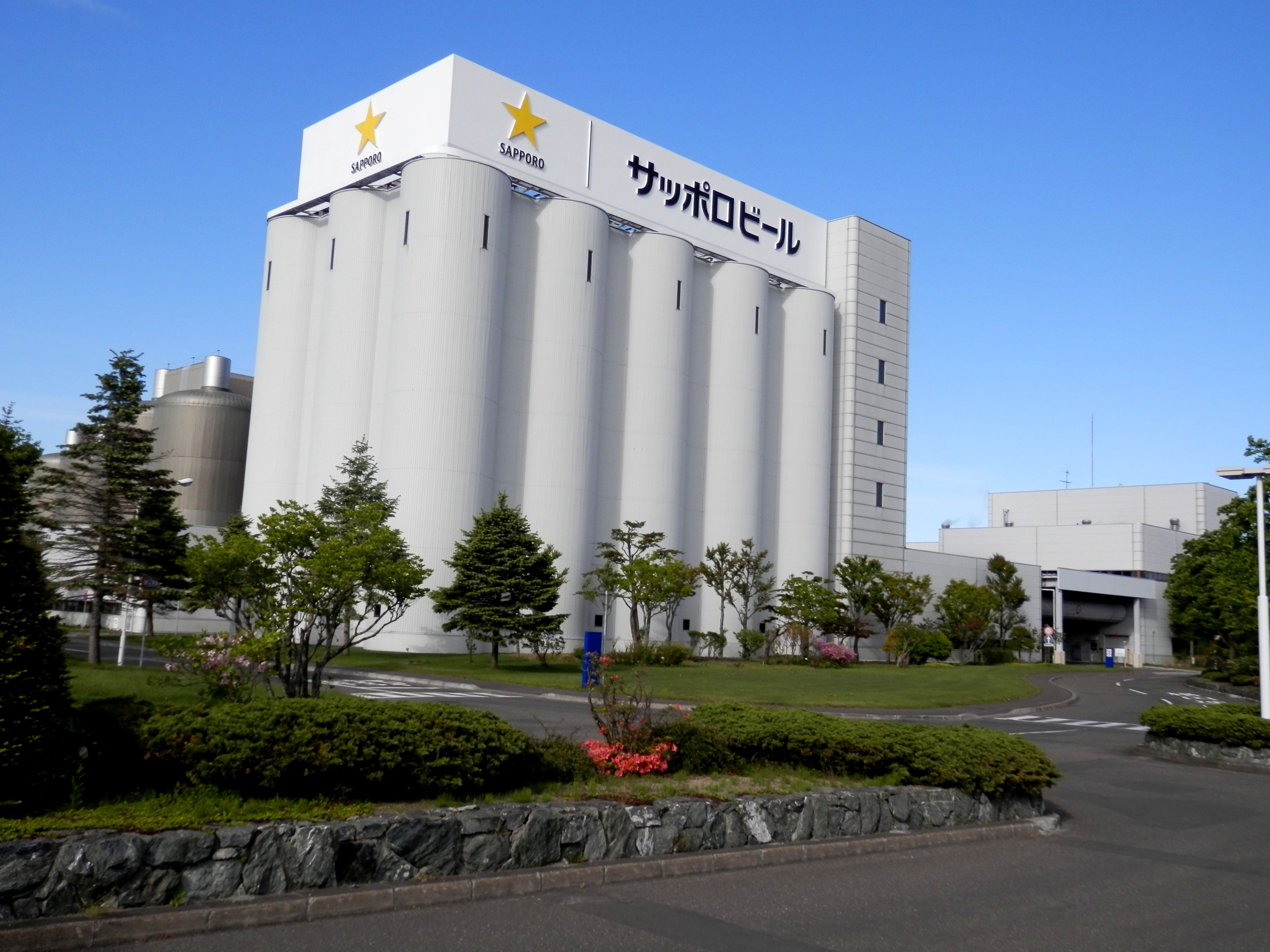 Sapporo Beer Hokkaido Factory in Eniwa, Hokkaido.